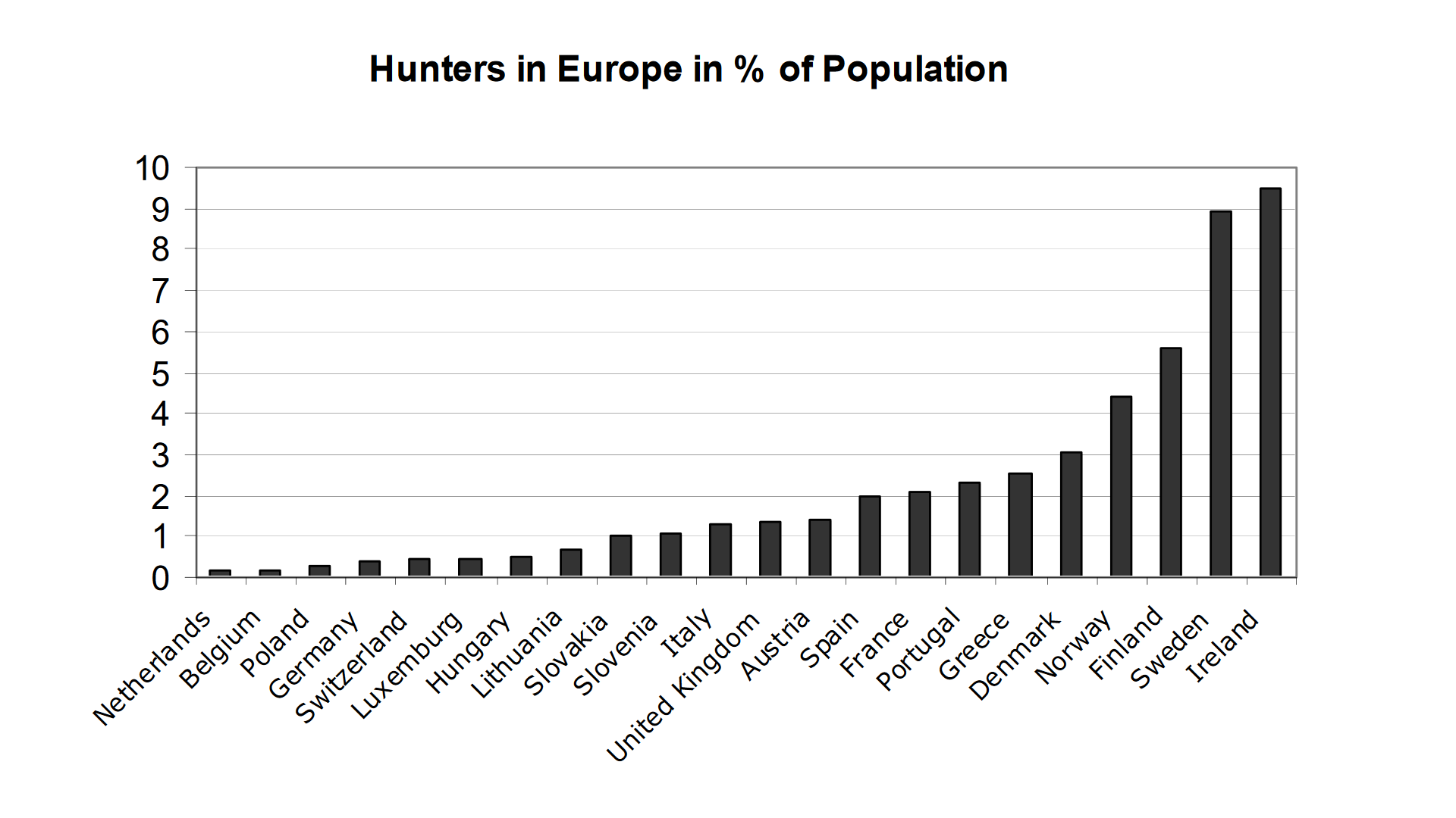 Number of hunters in 22 European countries as percentage of the total population in 2007 (sources: Deutscher Jagdverband, FACE)